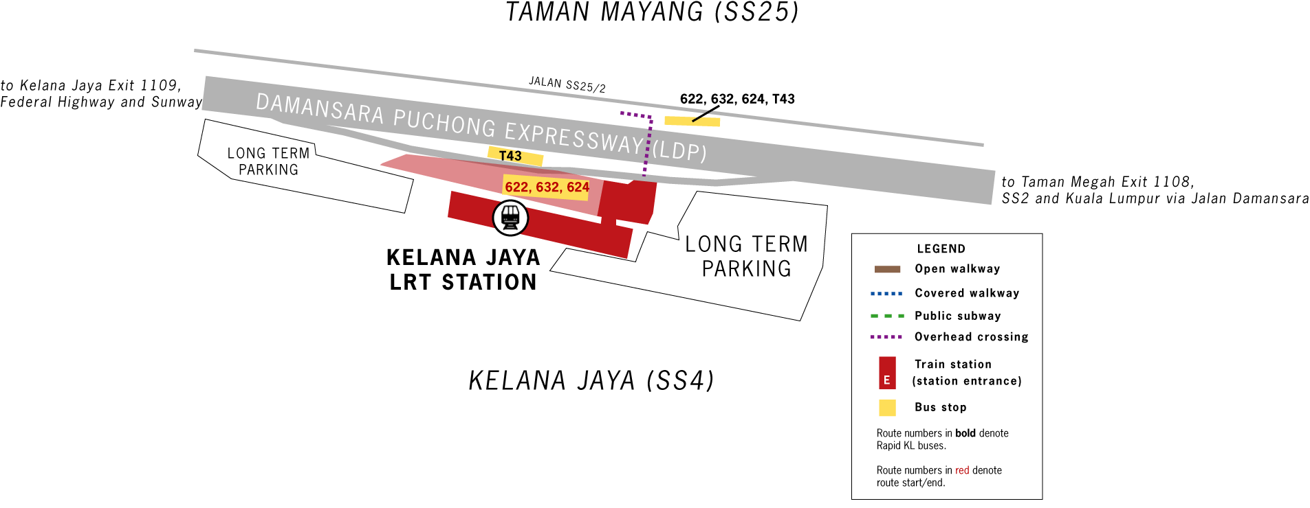 The geographical map of Kelana Jaya LRT station and its surroundings.